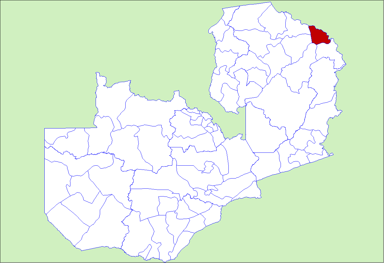 District locator in Zambia